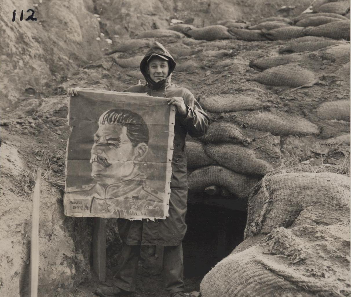 "27 Nov 50. Picture of Stalin found in bunker at Yudam-ni." From the Oliver P. Smith Collection (COLL/213), Marine Corps Archives & Special Collections OFFICIAL USMC PHOTOGRAPH